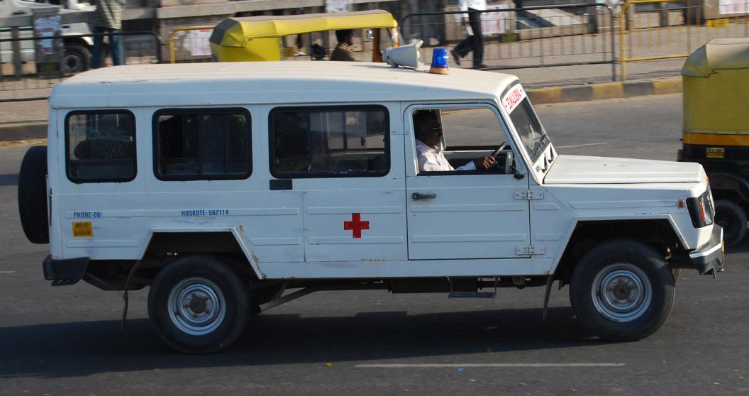 Tempo Trax LWB Ambulance, Bangalore 2010